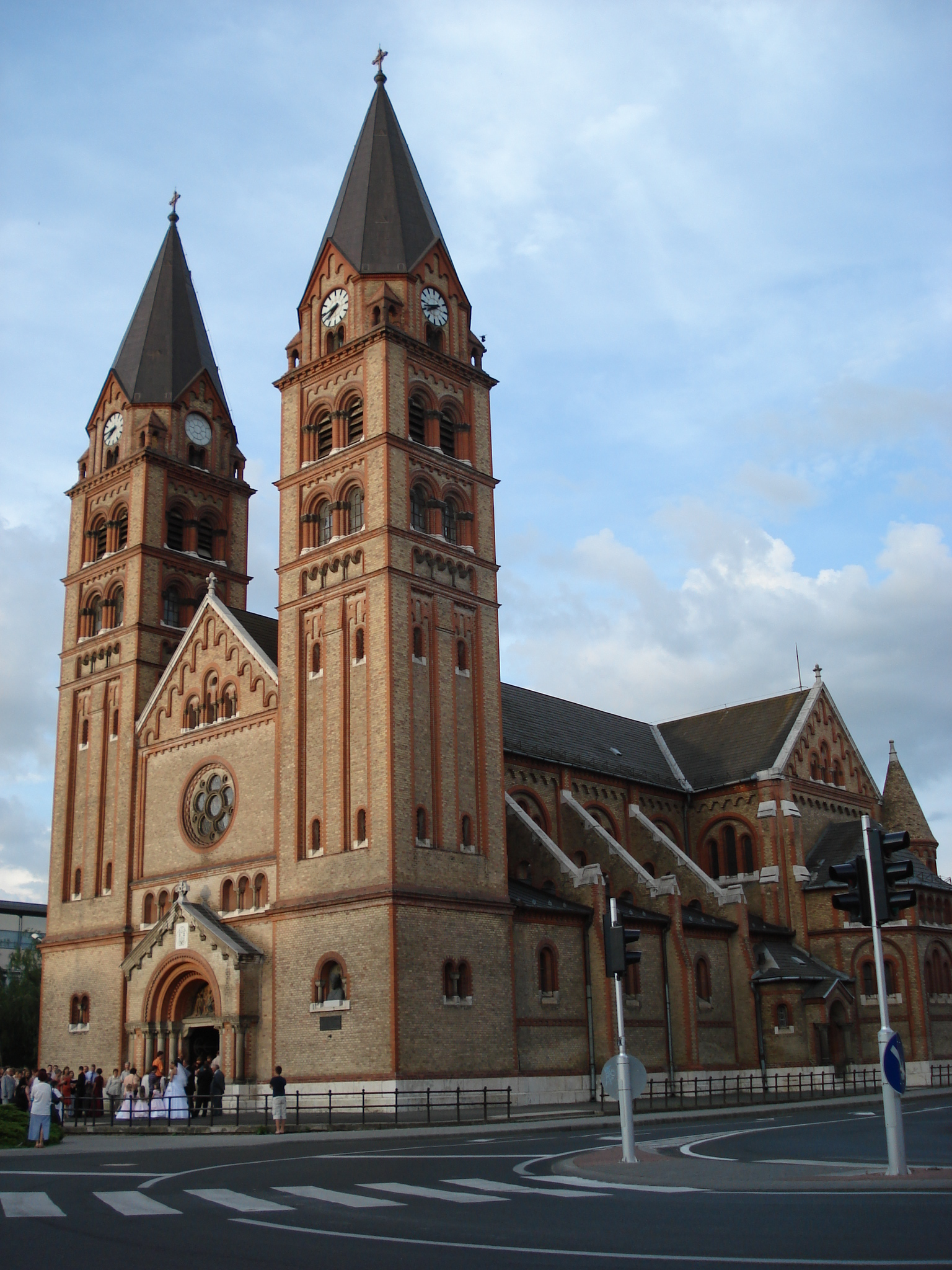 Cathedral in Nyiregyhaza, taken by David Sallay, June 2007